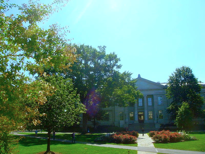 Hurst Hall, Biology and Environmental Science Department